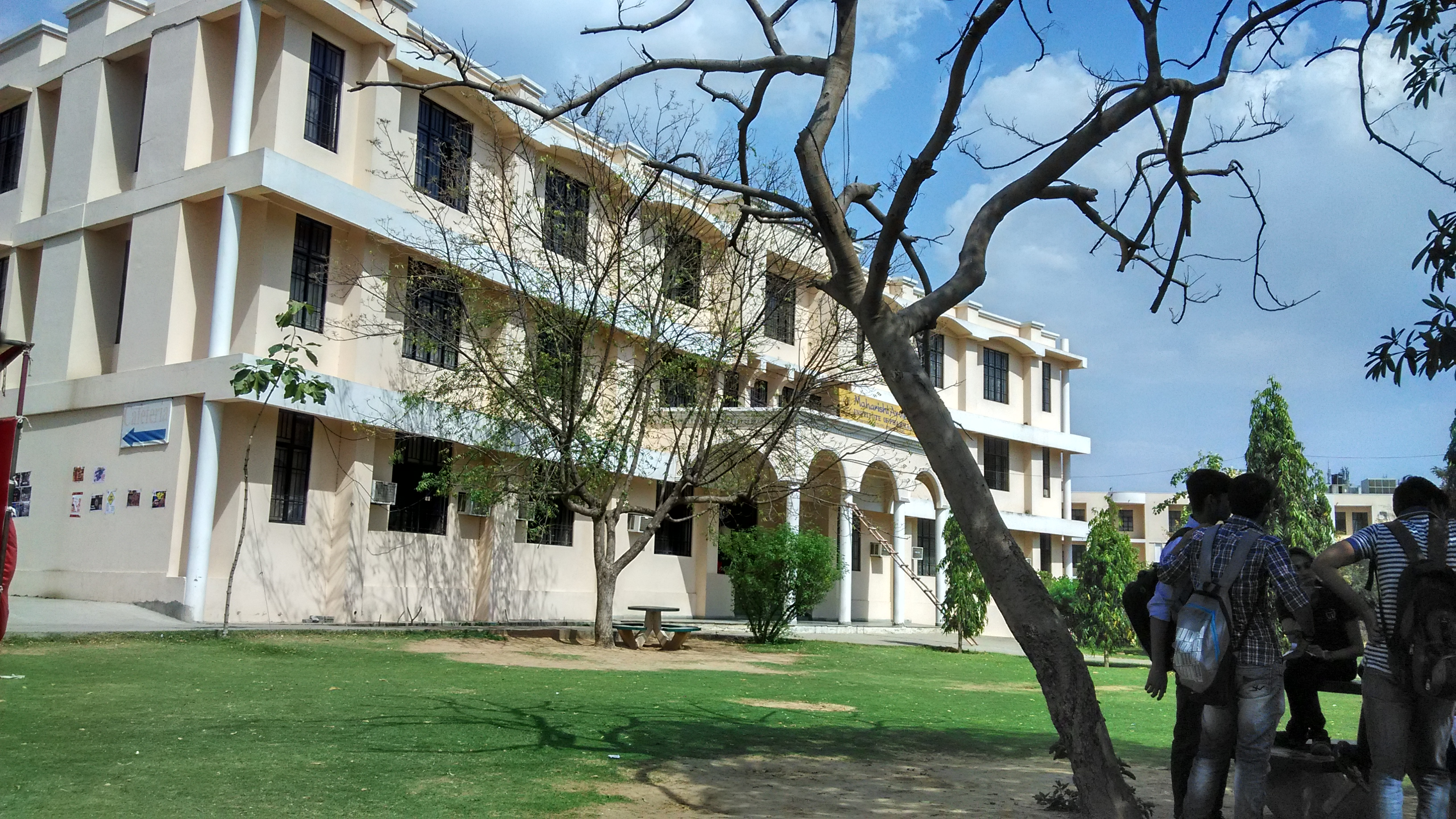 It's a outside view of MAIET's B Pharma Buliding